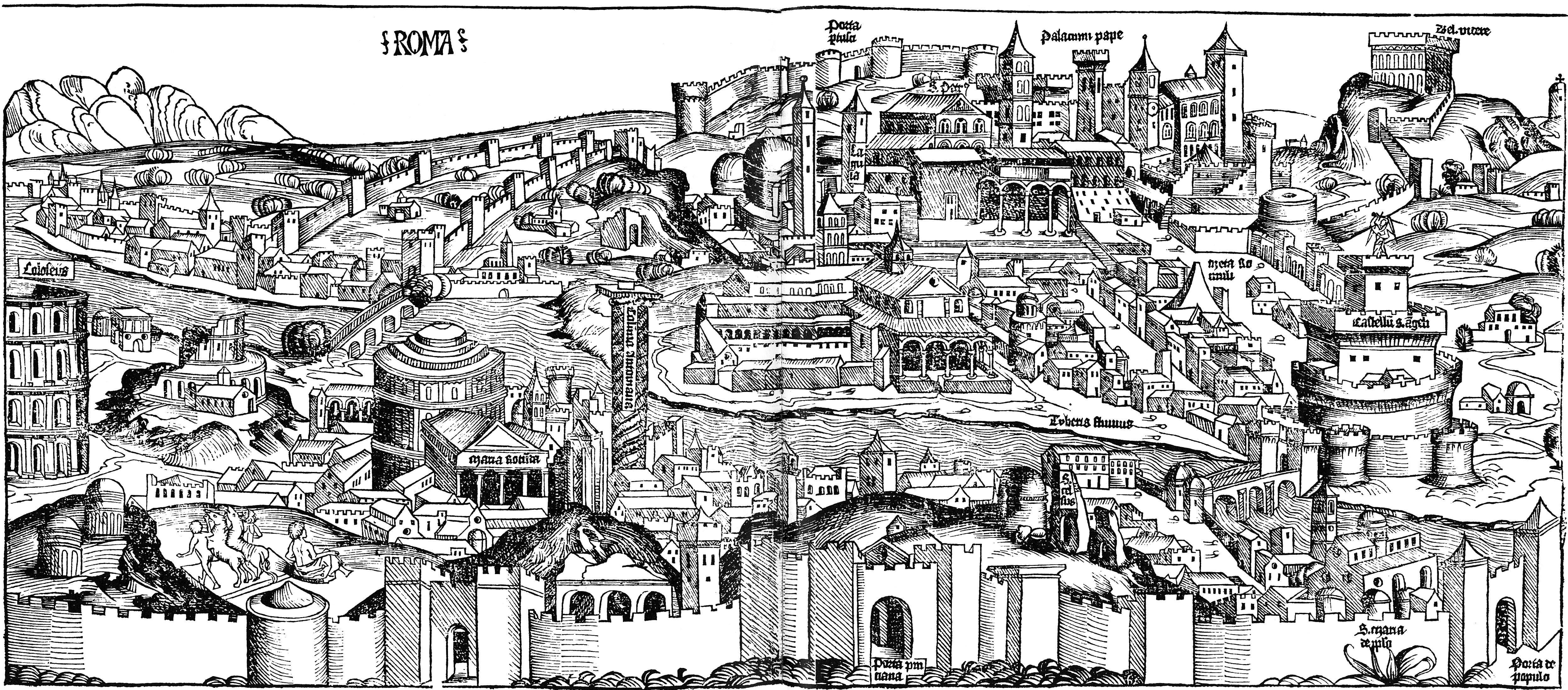 View of Rome in Italy, around 1490.